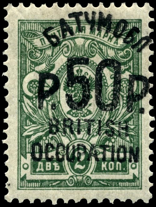 Batum 50-ruble overprint stamp of 1919 (forgery - see talk).